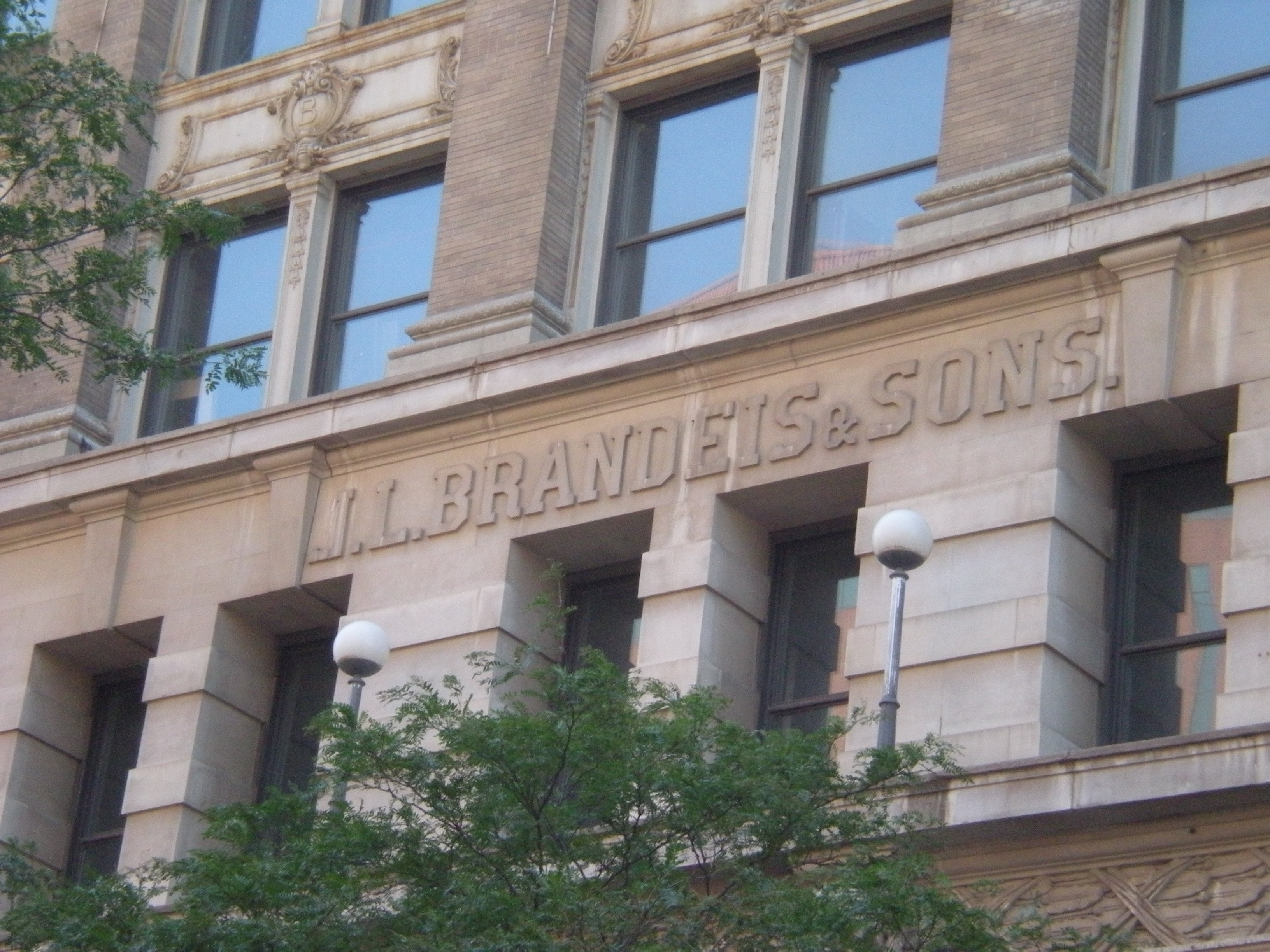 I took this photo of Brandeis in 2008